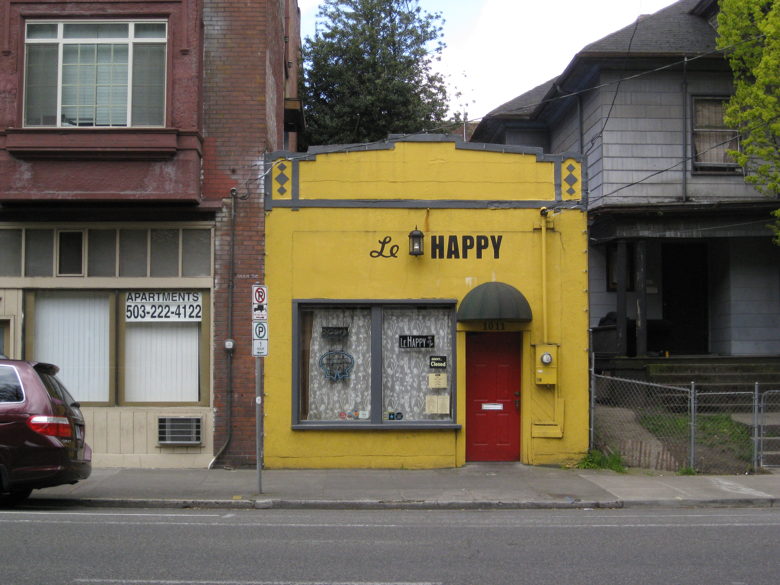 Portland, Oregon